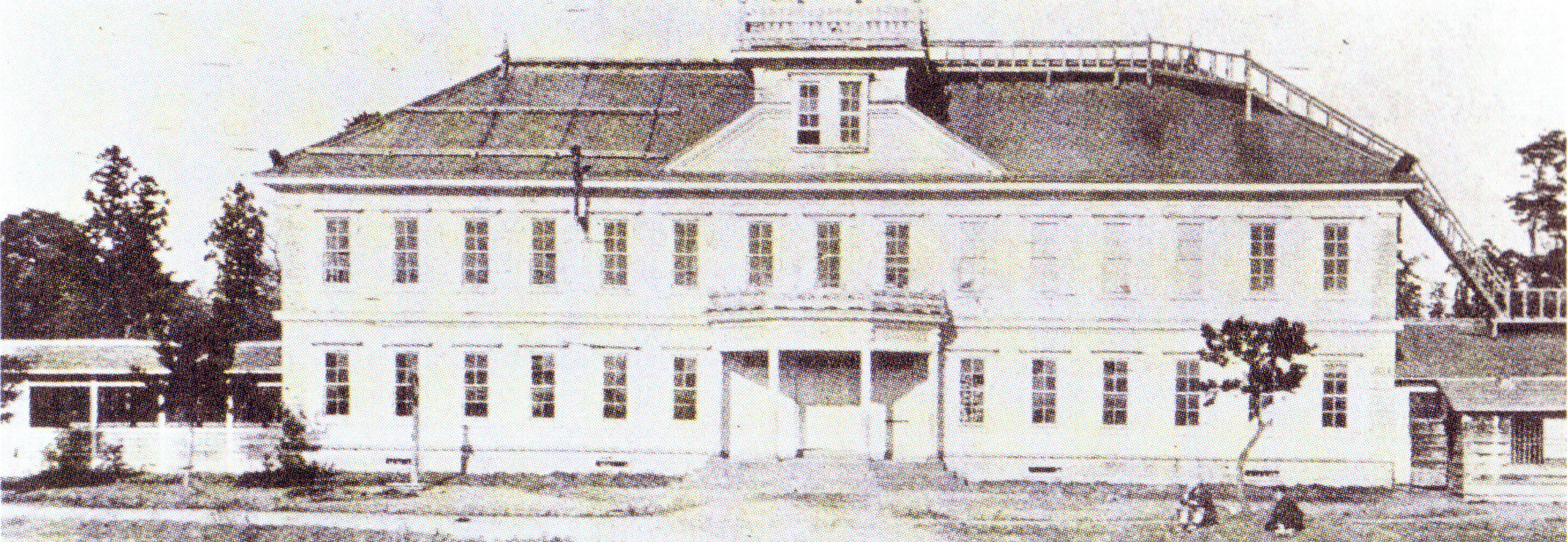 Toogijuku High School in Hirosaki, Aomori pref., Japan.